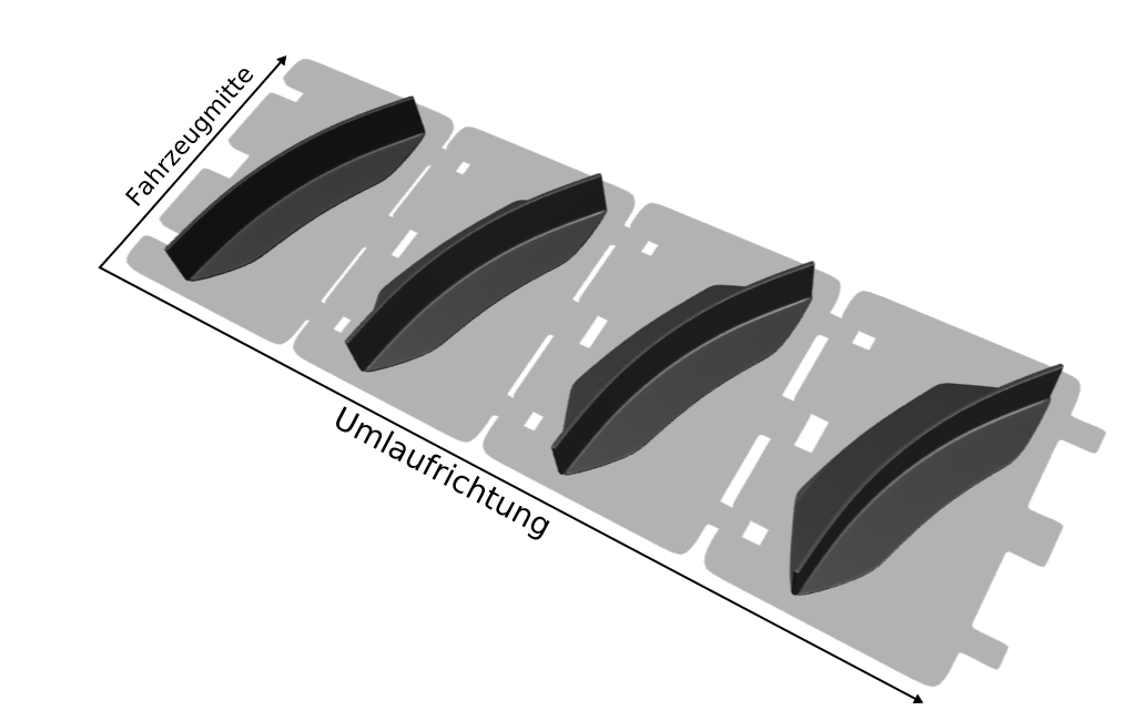 Schematische Anordnung der Paddelbleche von Donald Roeblings Alligator IV, Alligator V und LVT-1 Schematic setup of the paddle cleats of Donald Roebling's Alligator IV, Alligator V and LVT-1. The labels are: "Umlaufrichtung"="Rotating direction" and "Fahrzeugmitte" = "Middle of vehicle".